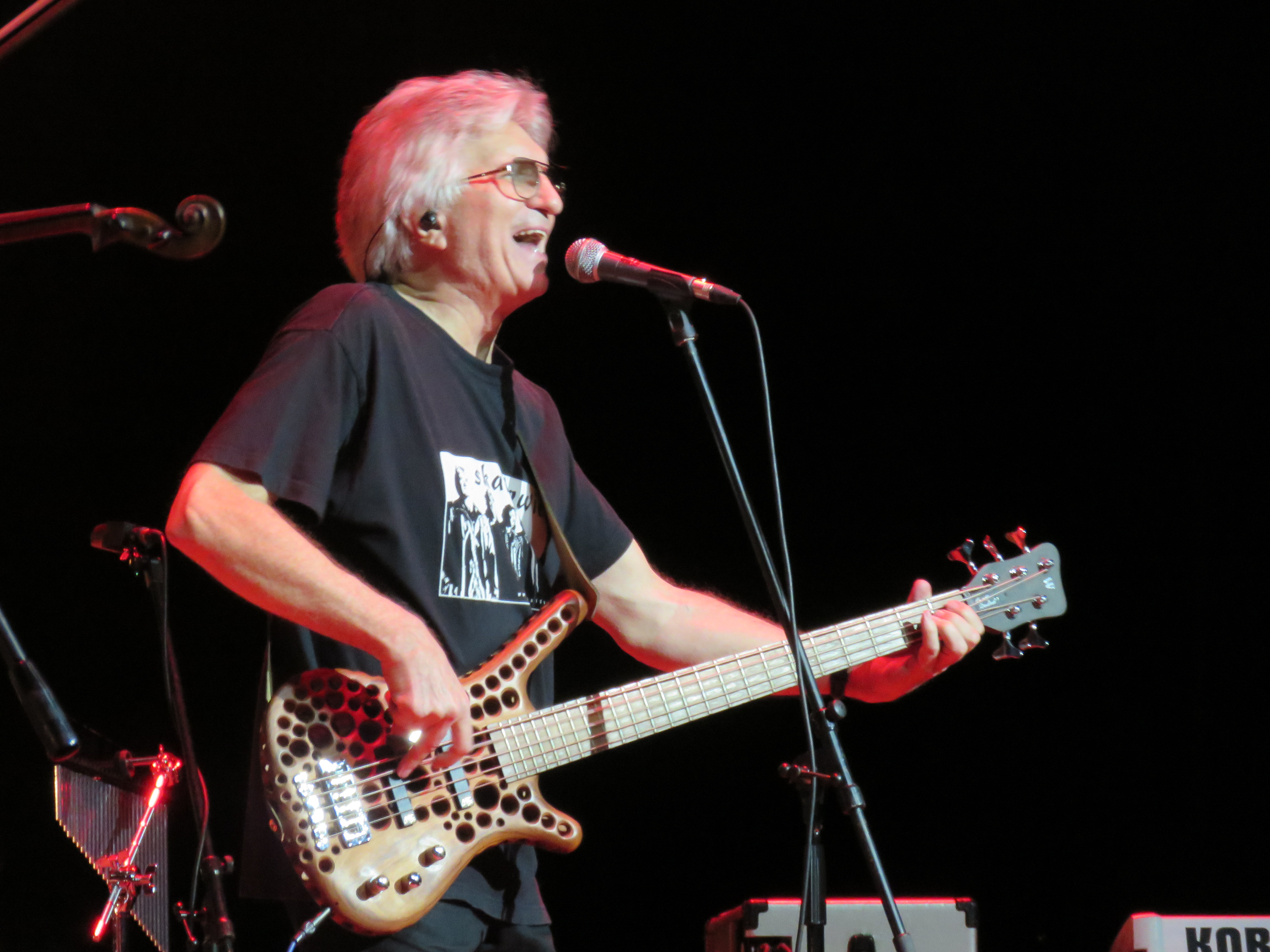 Konrad Ratynski (b. July 8, 1947 in Radom, Poland) – Polish rock musician, guitarist of Skaldowie. He lives in Cracow, Poland